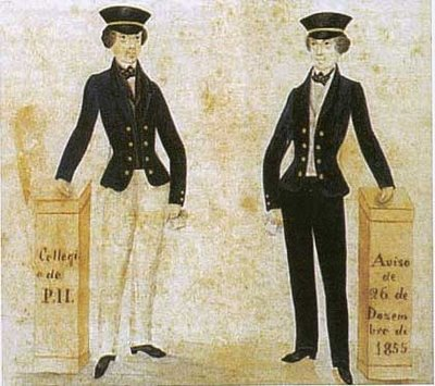 School uniforms of the Colegio Pedro II in 1855.